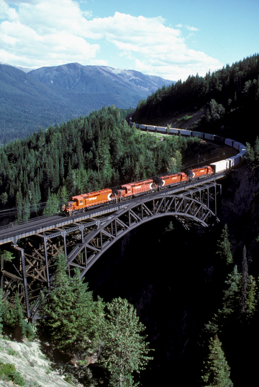 The Stoney Creek Bridge is just within the East end of Glacier Park on the Connaught track between Rogers and Flat Creek on the Mountain Sub of the Revelstoke Division of the CPR. Stoney Creek Bridge is over 600' long and 325' above the creek.